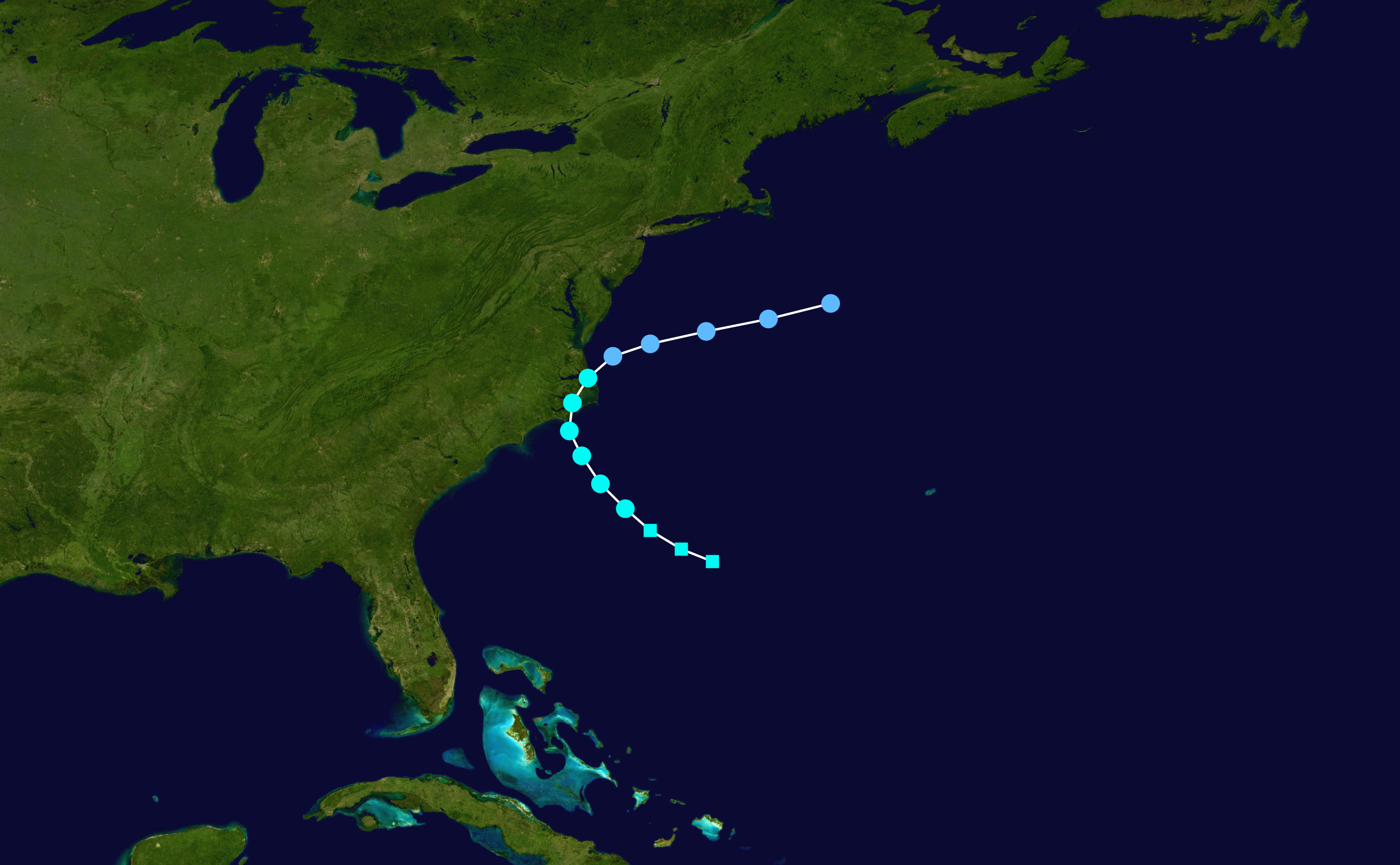 Track map of Tropical Storm Gabrielle of the 2007 Atlantic hurricane season. The points show the location of the storm at 6-hour intervals. The colour represents the storm's maximum sustained wind speeds as classified in the Saffir–Simpson scale (see below), and the shape of the data points represent the nature of the storm, according to the legend below. Saffir–Simpson scale Tropical depression≤38 mph≤62 km/h Category 3111–129 mph178–208 km/h Tropical storm39–73 mph63–118 km/h Category 4130–156 mph209–251 km/h Category 174–95 mph119–153 km/h Category 5≥157 mph≥252 km/h Category 296–110 mph154–177 km/h Unknown Storm type Tropical cyclone Subtropical cyclone Extratropical cyclone / Remnant low / Tropical disturbance / Monsoon depression